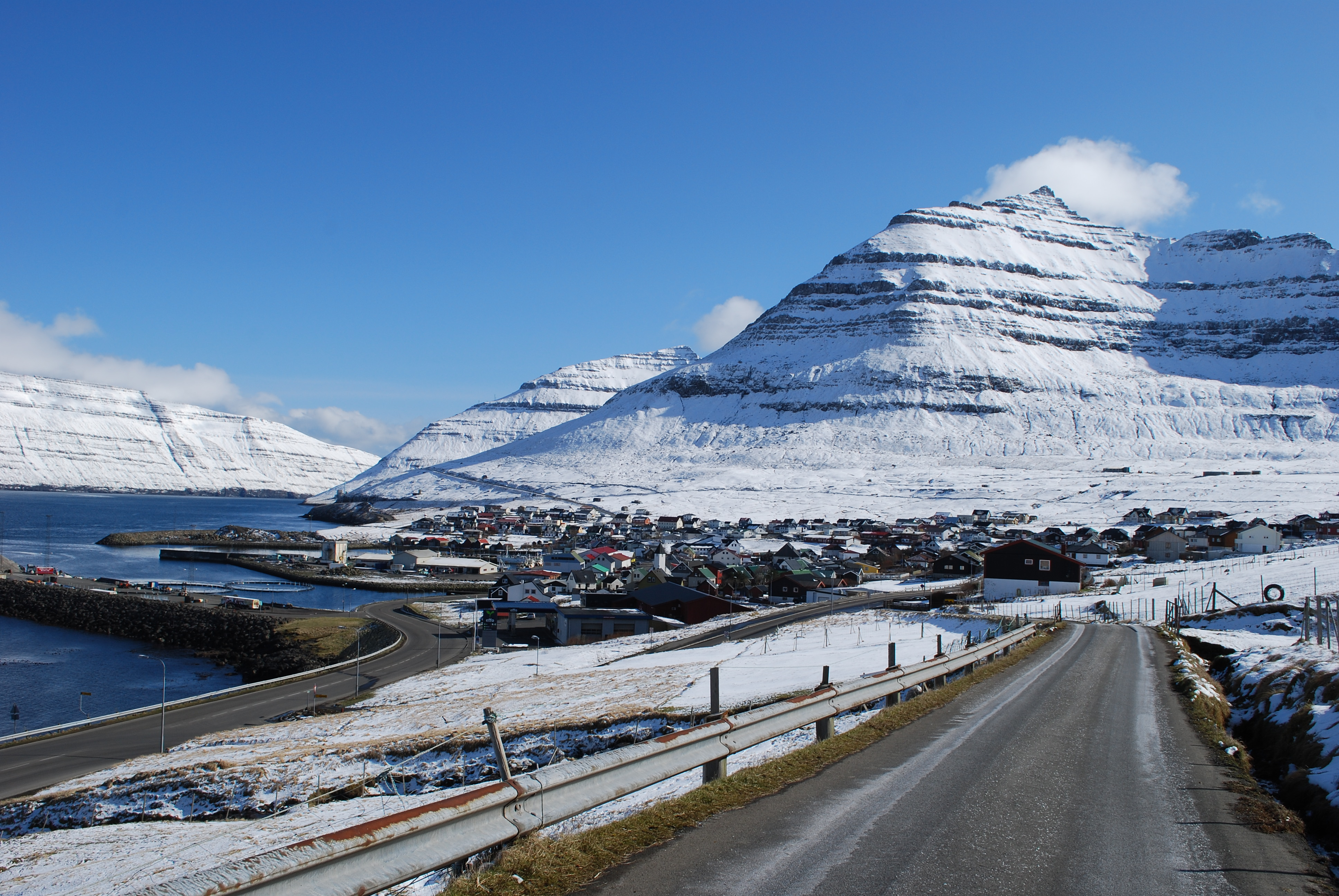 Leirvík, Eysturoy, Faroe Islands